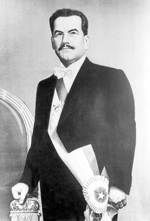 Official portrait of Pedro Aguirre Cerda